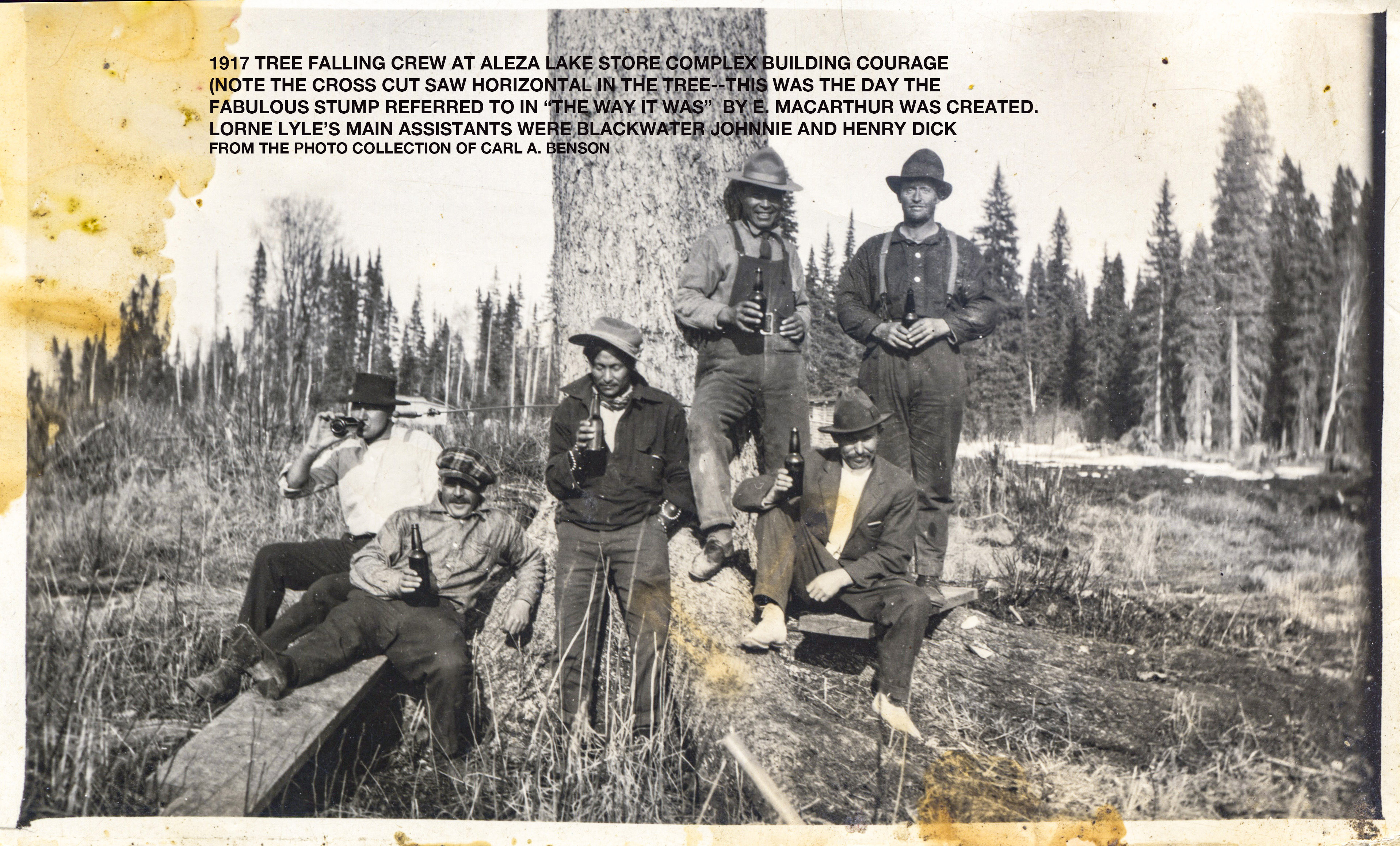 Tree falling along East Line, 1917